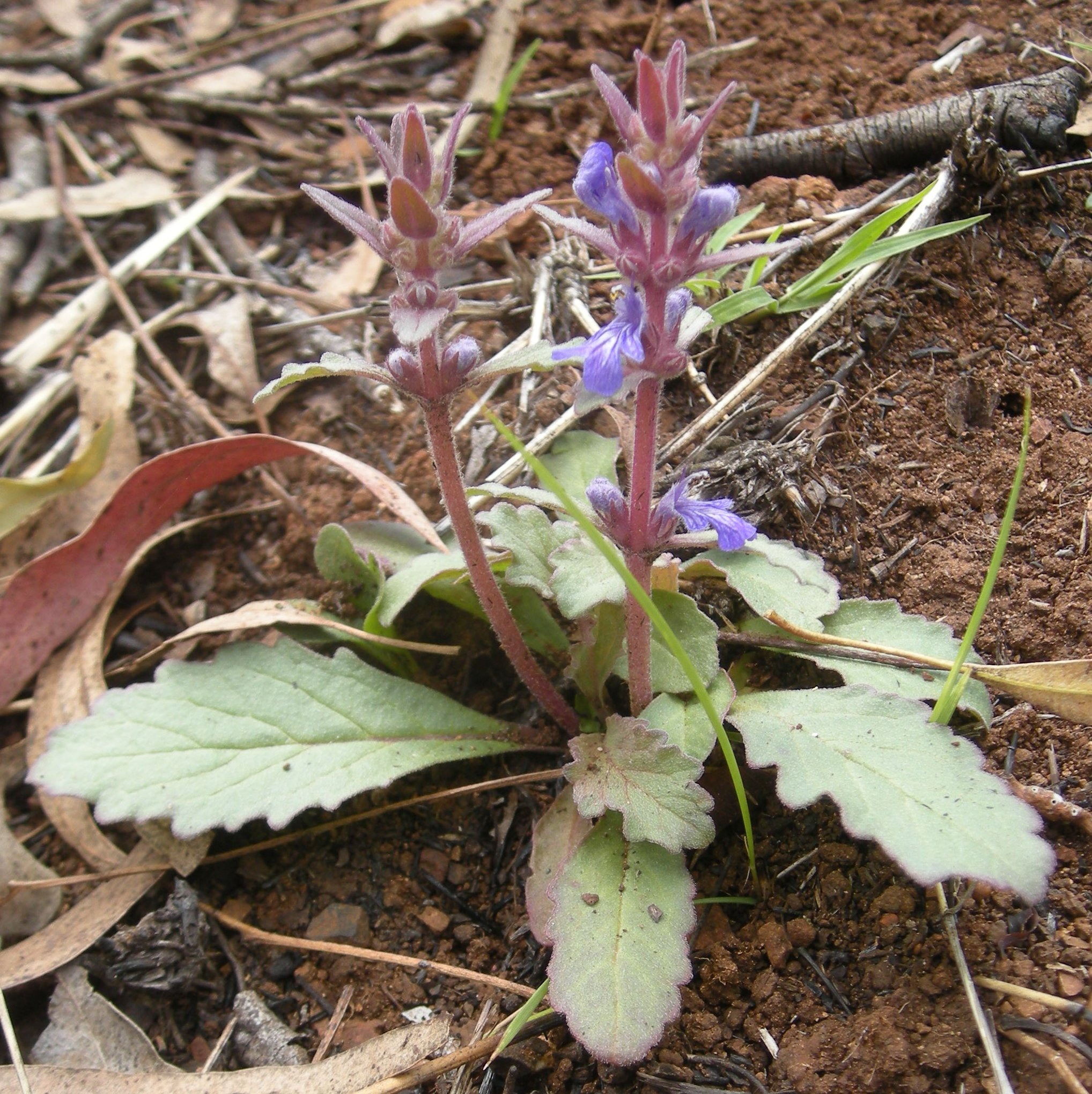 Ajuga australis plant. Mount Etna Caves National Park, Central Queensland.